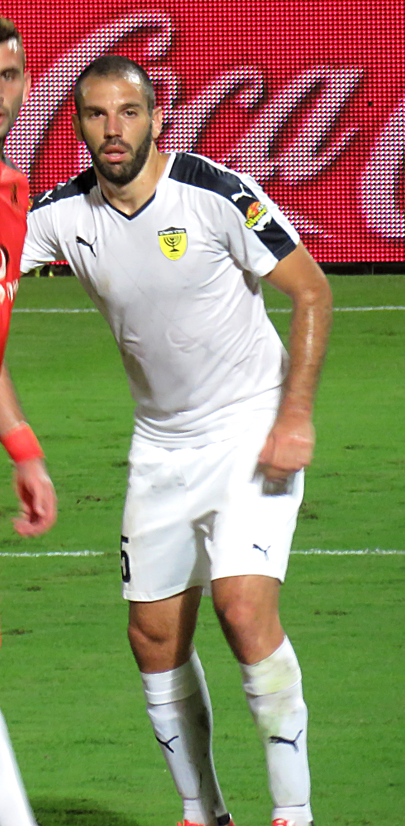 Bnei Yehuda Tel Aviv vs. Beitar Jerusalem - 19 September, 2015